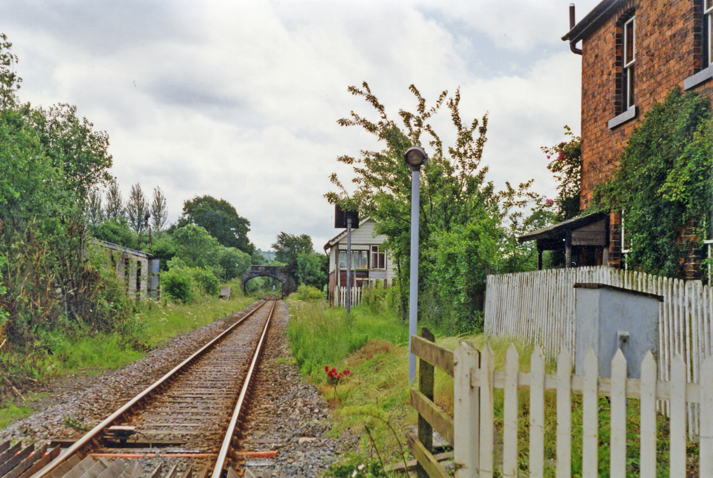 Forden station (remains), 1993. View southward, towards Machynlleth and Aberystwyth: ex-Cambrian Railway Whitchurch - Oswestry - Buttington - Welshpool - Machynlleth - Aberystwyth main line. The station was closed 14/6/65, when the whole line was also closed between Whitchurch and Buttington, leaving only the trains to the Welsh Coast running via Shrewsbury through Forden.